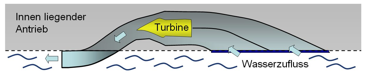 Zeuner water turbine (plan)